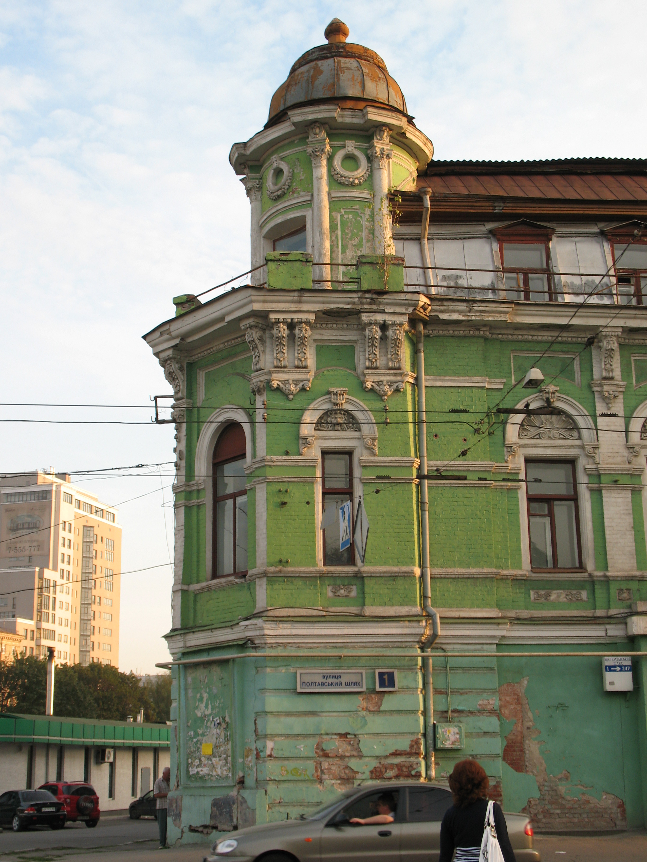 Kharkov City. Полтавский шлях, 1.